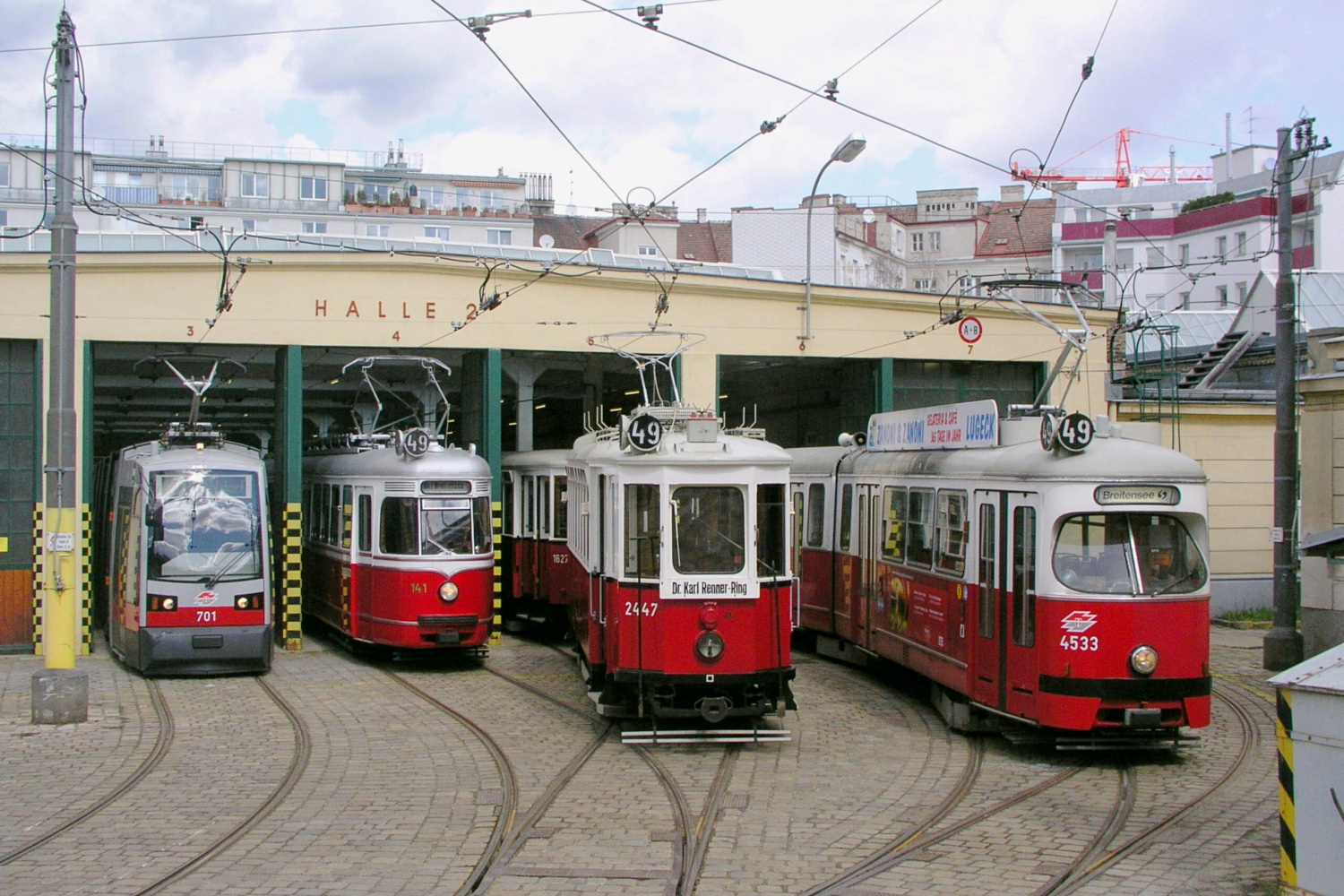 4 Generations of Trams at Breitensee Depot in Vienna: Class B Ultra Low Floor Tram No. 701 Class C1 No. 141 from the 1950ies, Museum Class K No. 2447, built before WW I, Museum Class E1 No. 4533, built in the 1970ies, regular use The Remise Breitensee became unused by Oct. 2006 and was demolished until Jan. 2009. Its ground will be used for the housing project Karree Breitensee.